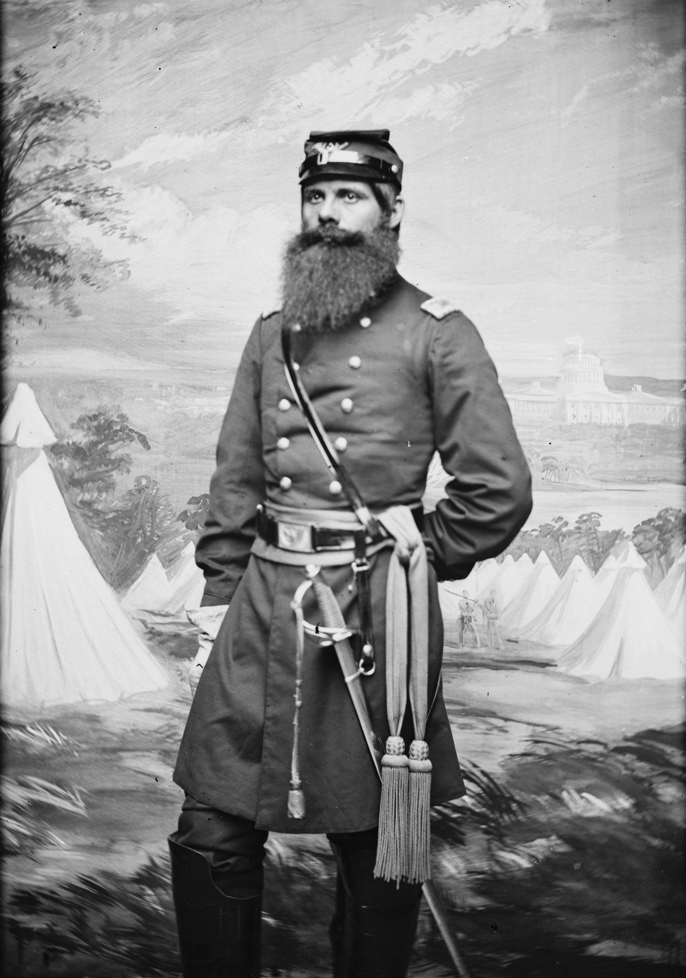 Title: Maj. W.W. Cook, 5th N.H. Inf. Physical description: 1 negative